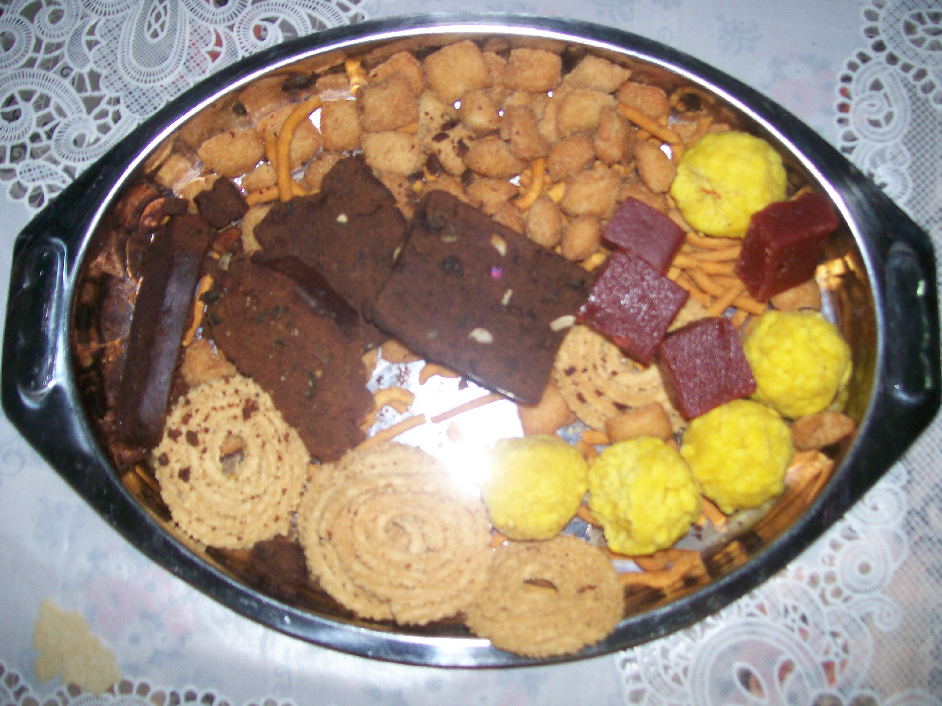 Kuswar is a term often used to mention a set of unique Christmas goodies which are part of the cuisine of the Mangalorean Catholics and Goan Catholics.